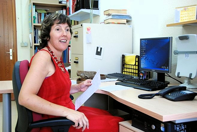 Woman computer scientist. University of the Basque Country